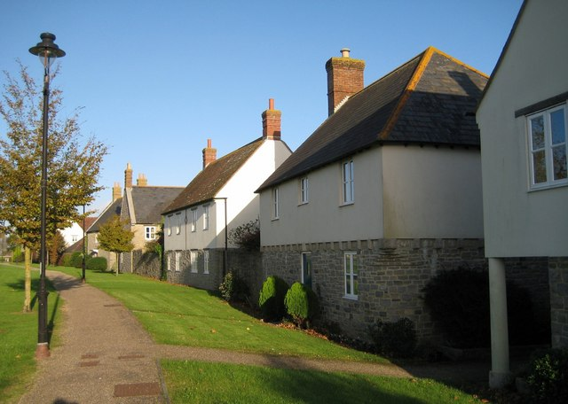 Holmead Walk - Poundbury This part of the Walk runs alongside Middle Farm Way. These houses are in the style of farm cottages.